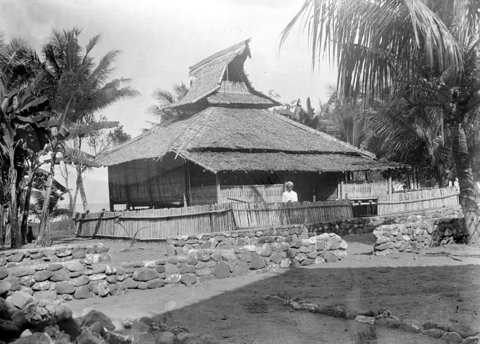 Mosque at Pulau Makian